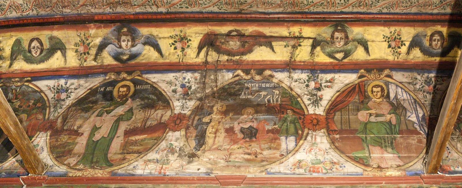 Agiou Georgiou Kilkis